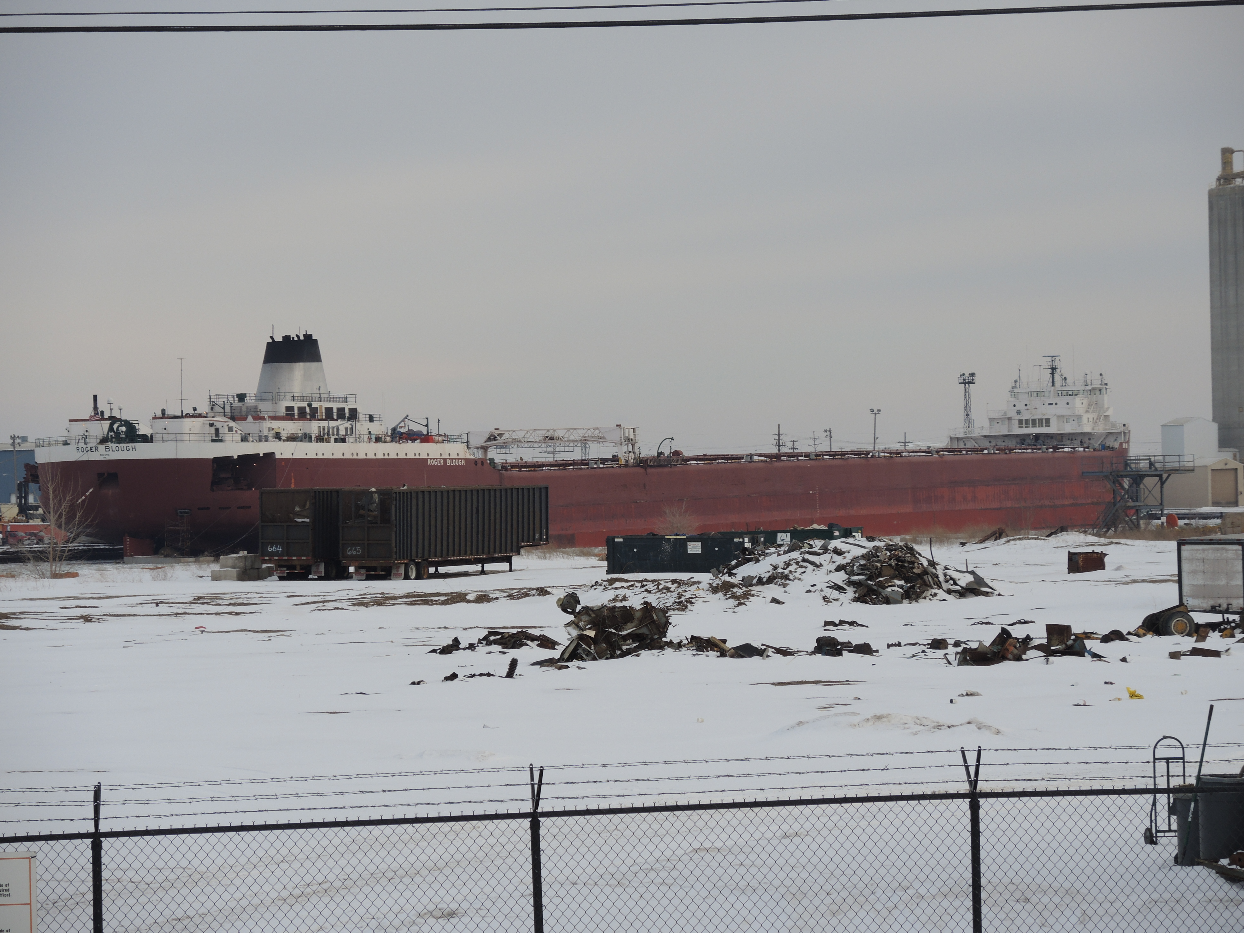 picture of the great lakes freighter M/V Roger Blough.